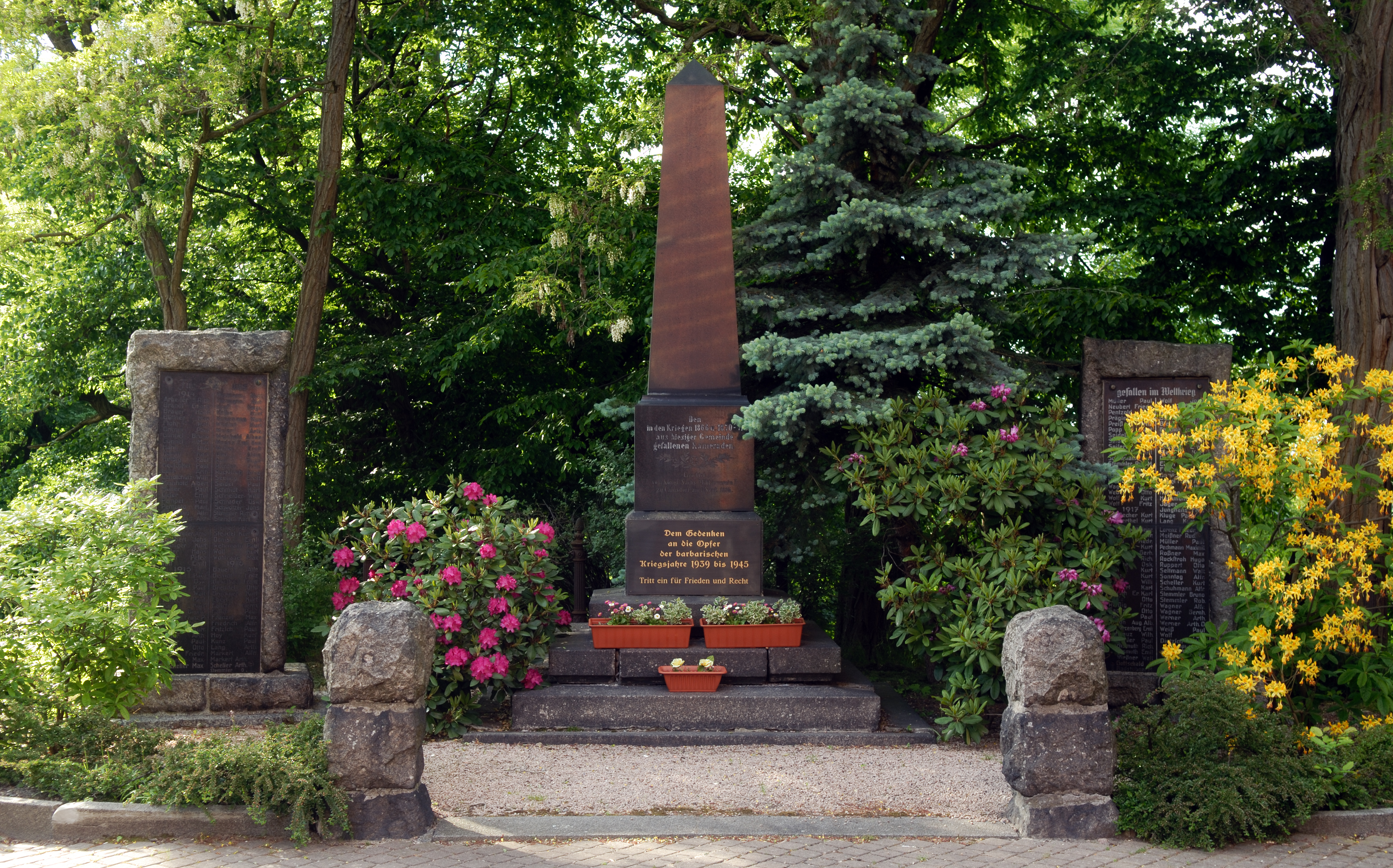 This image shows the memorial next to the church in Zwickau Cainsdorf.